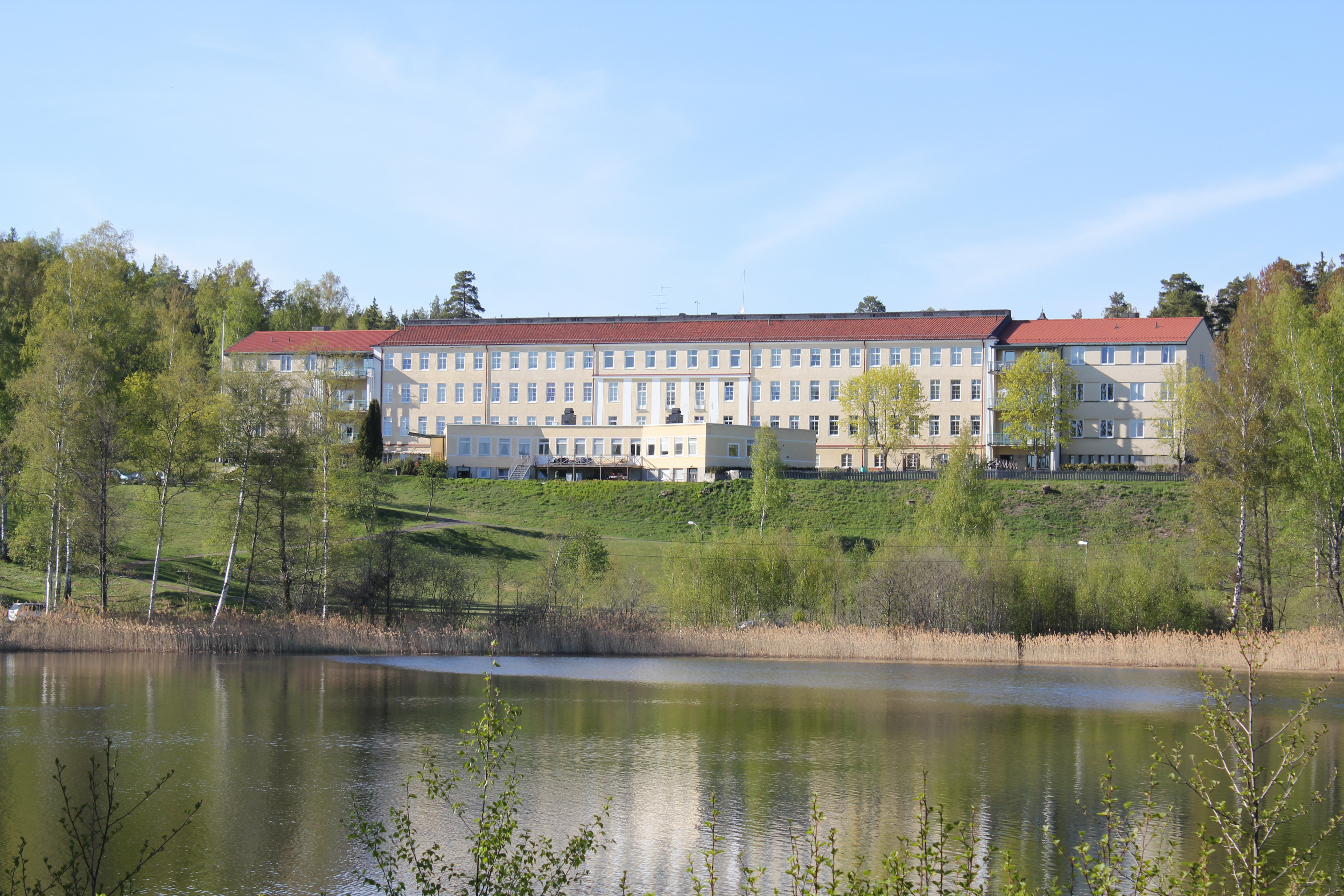 Uttrans old hospital in Botkyrka municipality south of Stockholm, Sweden.